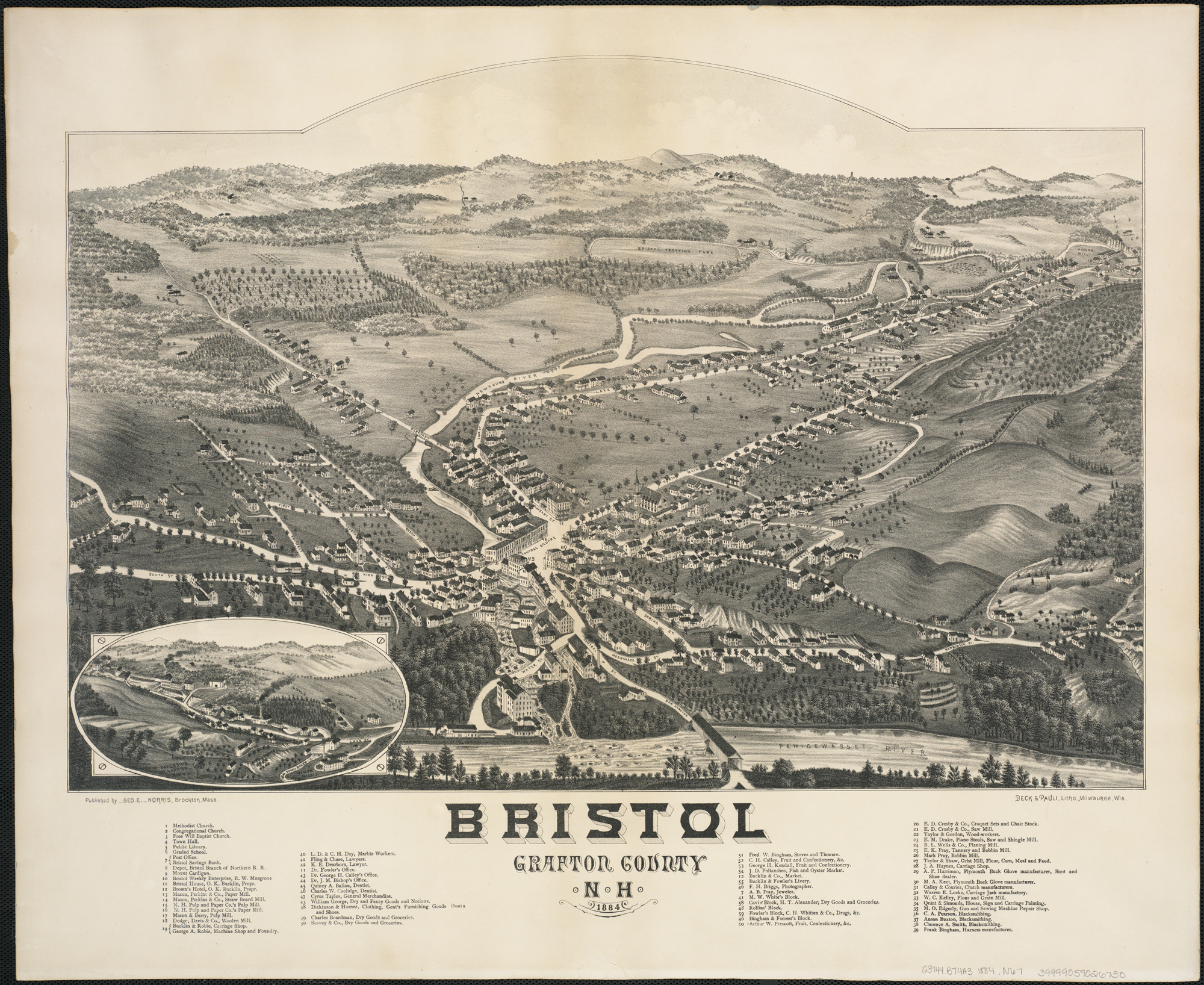 Zoom into this map at . Author: Beck & Pauli Publisher: Norris, George E. Date: 1884 Location: Bristol (N.H.) Dimension 40x58cm Scale: Not drawn to scale Call Number: G3744.B74A3 1884 .N67